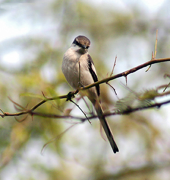 White-bellied Minivet Pericrocotus erythropygius at Bharatpur, Rajasthan, India.